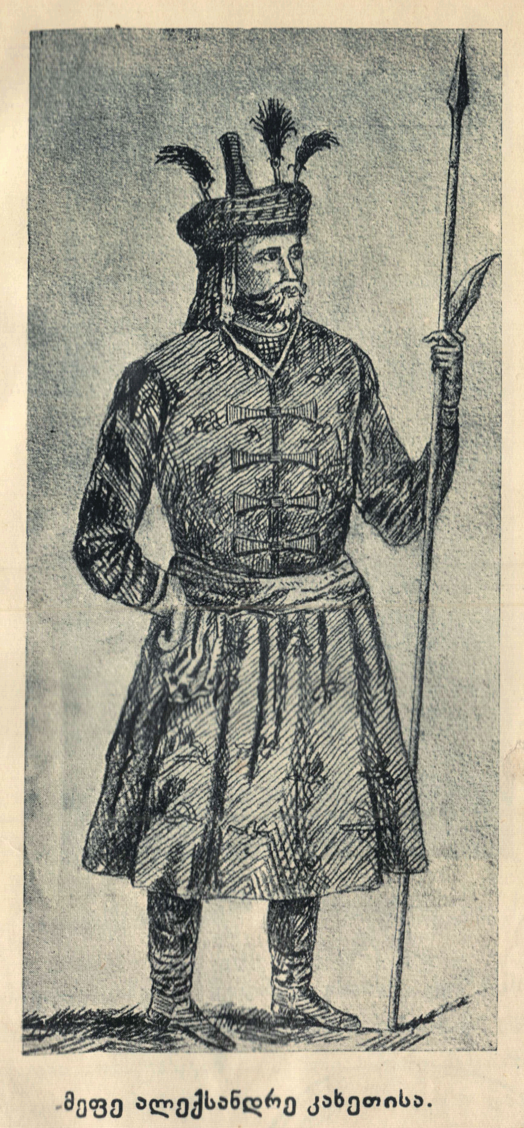 Alexander II of Kakheti